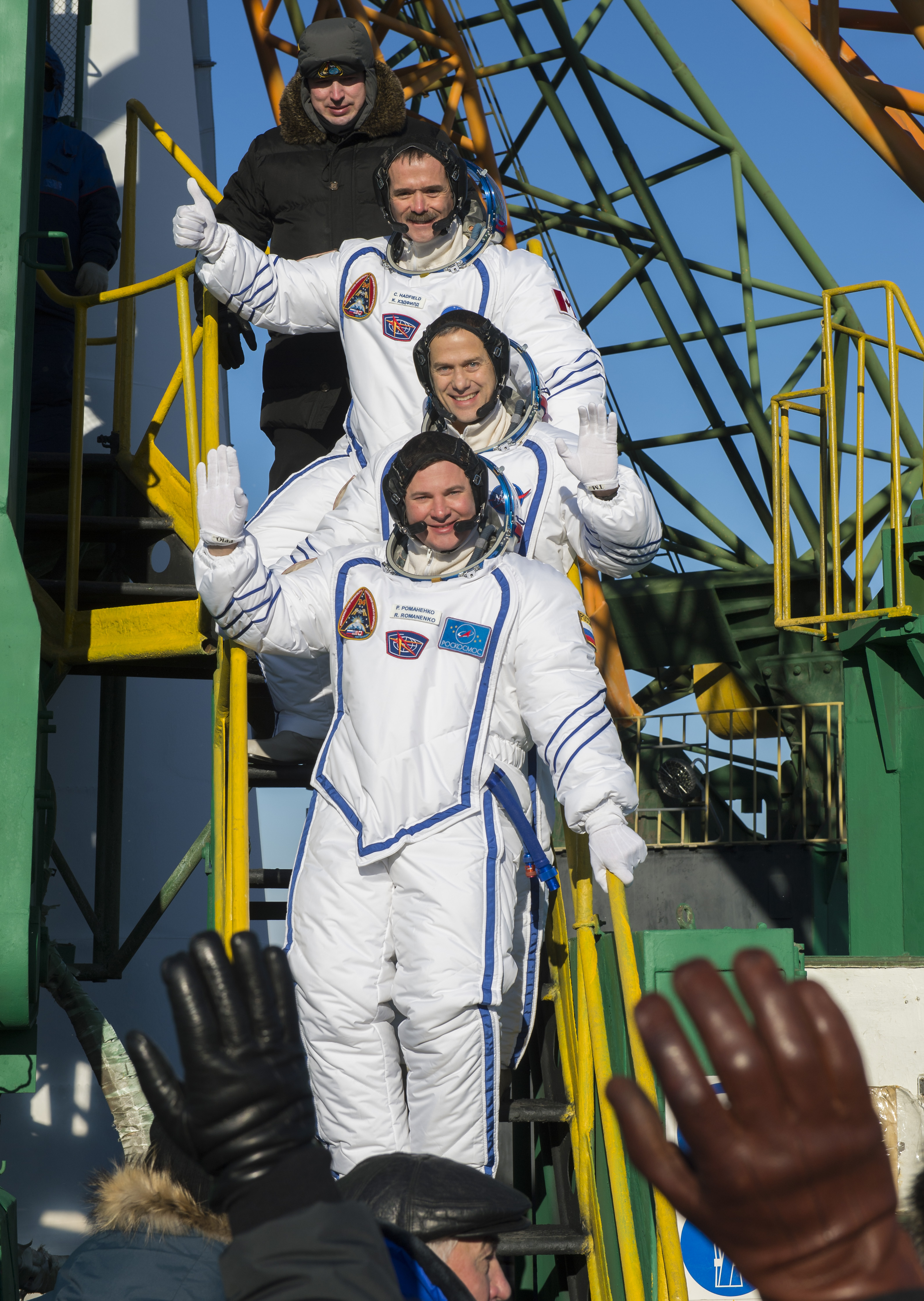 Expedition 34 NASA Flight Engineer Chris Hadfield of the Canadian Space Agency (CSA), top, NASA Flight Engineer Tom Marshburn and Soyuz Commander Roman Romanenko wave farewell from the bottom of the Soyuz rocket at the Baikonur Cosmodrome in Baikonur, Kazakhstan, Wednesday, Dec. 19, 2012. Their Soyuz TMA-07M rocket launched at 6:12 p.m. local time.